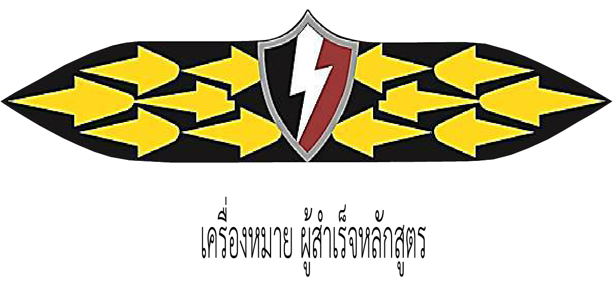 Honorable badge which is inches long oval shape made by metal. Inside the badge, there are symbols of an arrow head in the middle. The arrow head has a silver edge and a lighting in the middle with black and crimson background. On the lest and right sides of the arrow head, there are brunches of six shower flowers.